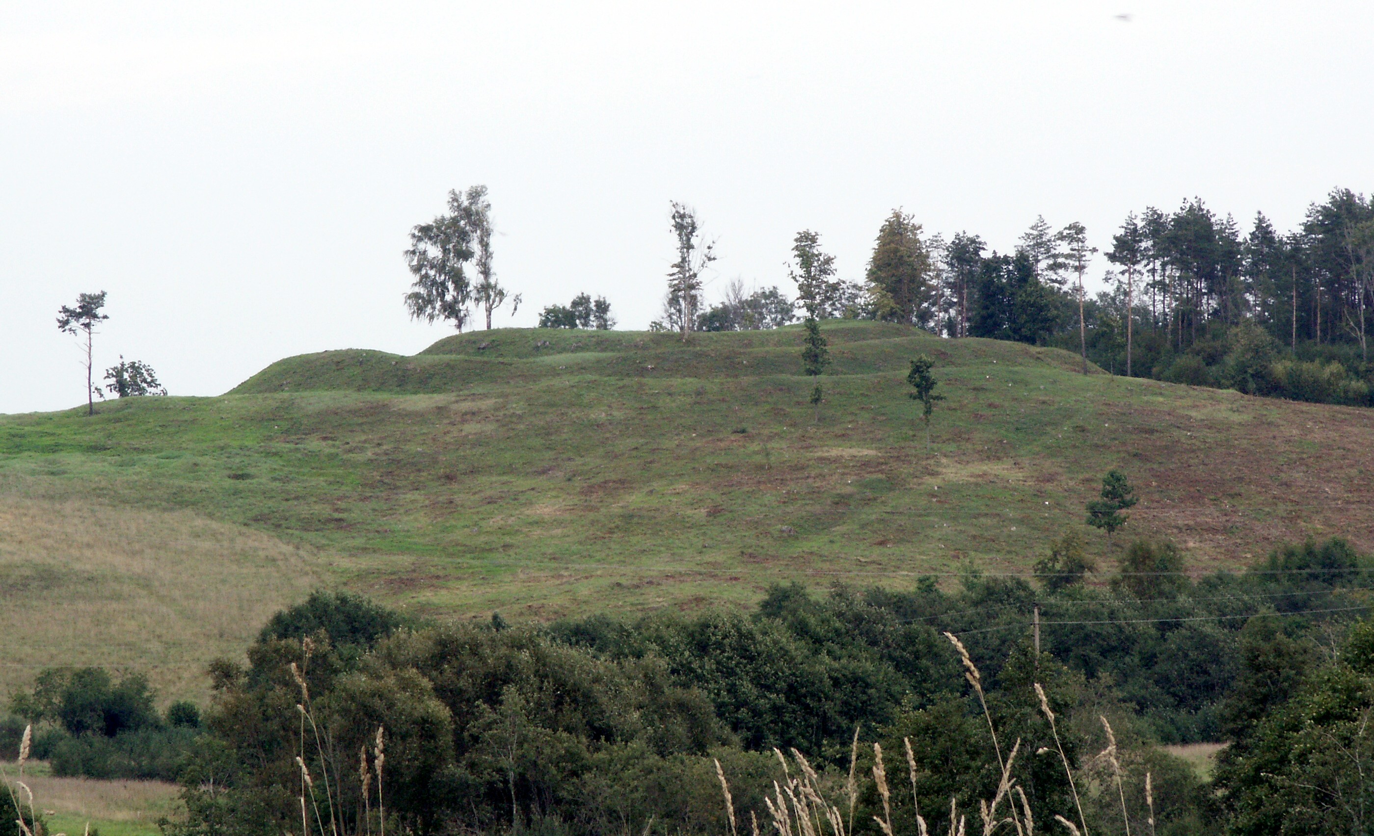 Sprūdė, Lithuania